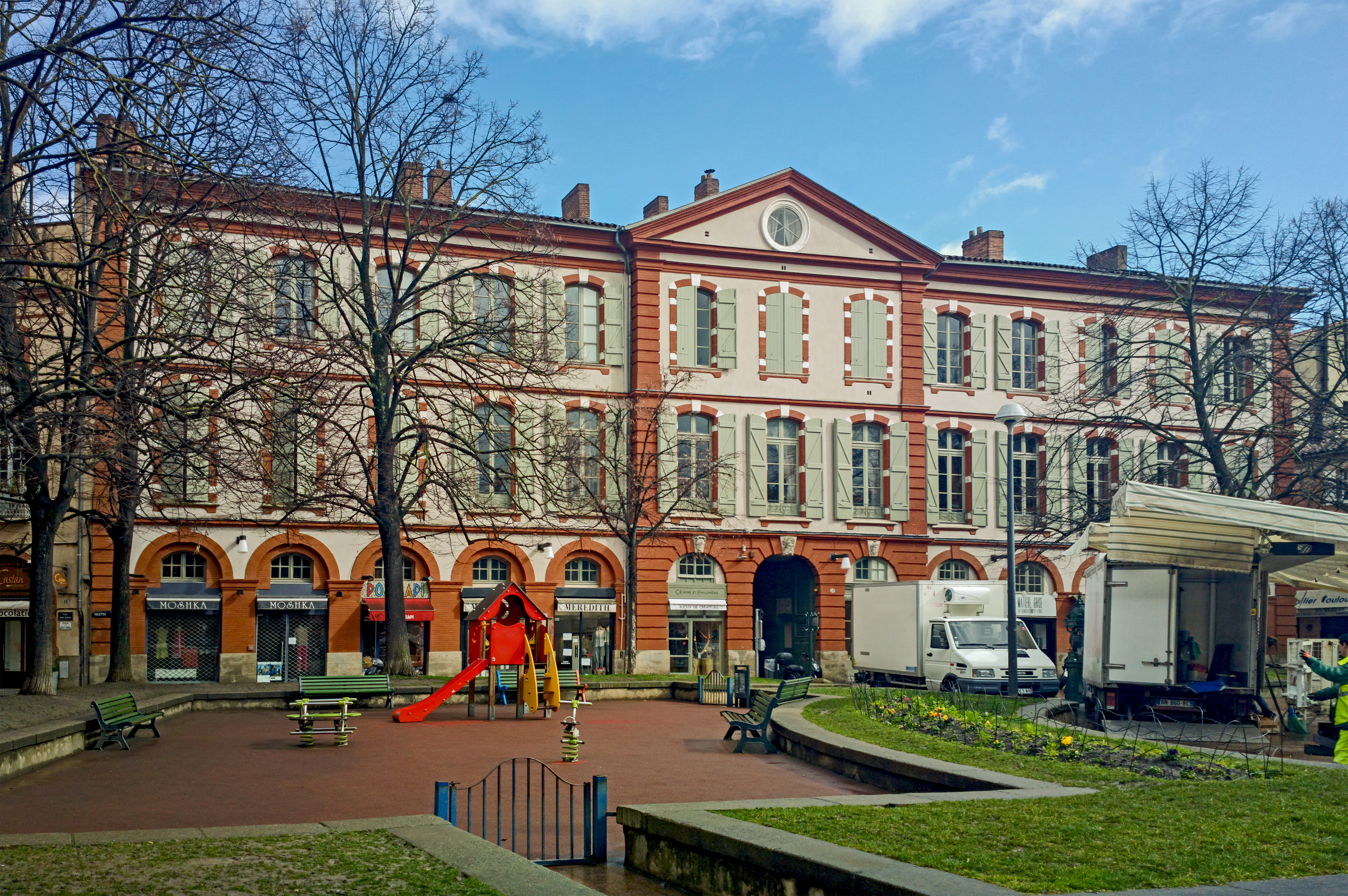 Hôtel de la Fage in Toulouse, facade on place Saint Georges.